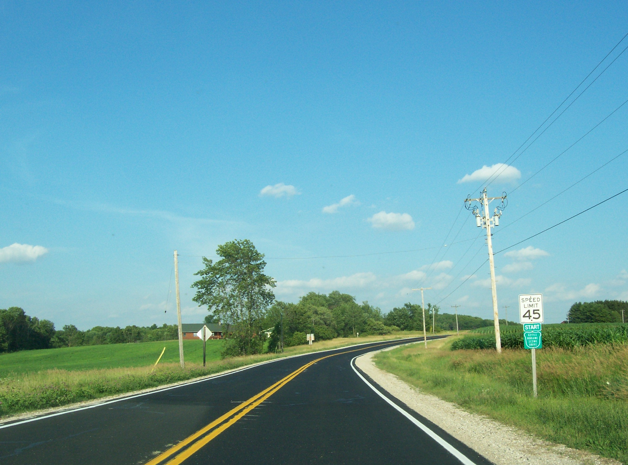 Looking southeast at the northern terminus of the Kettle Moraine Scenic Drive one mile northwest of Elkhart Lake, Wisconsin, USA. Cropped from original.